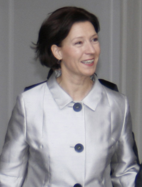 Austrian politician Gabriele Heinisch-Hosek (SPÖ) minutes after being sworn-in as Federal Minister at the Federal Chancellery of Austria (Ballhausplatz, Vienna).